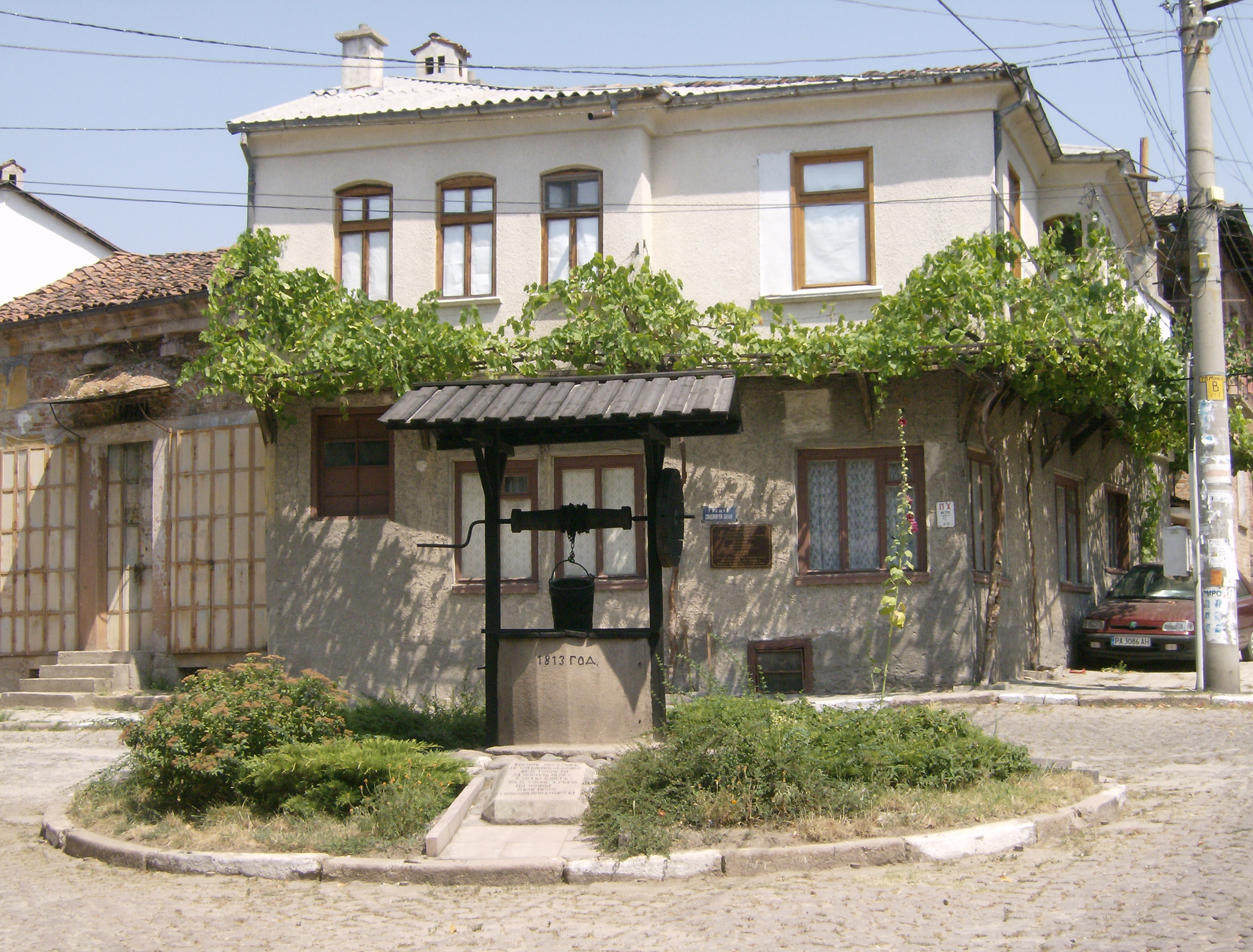 Sindjirli Bunar, Bratsigovo